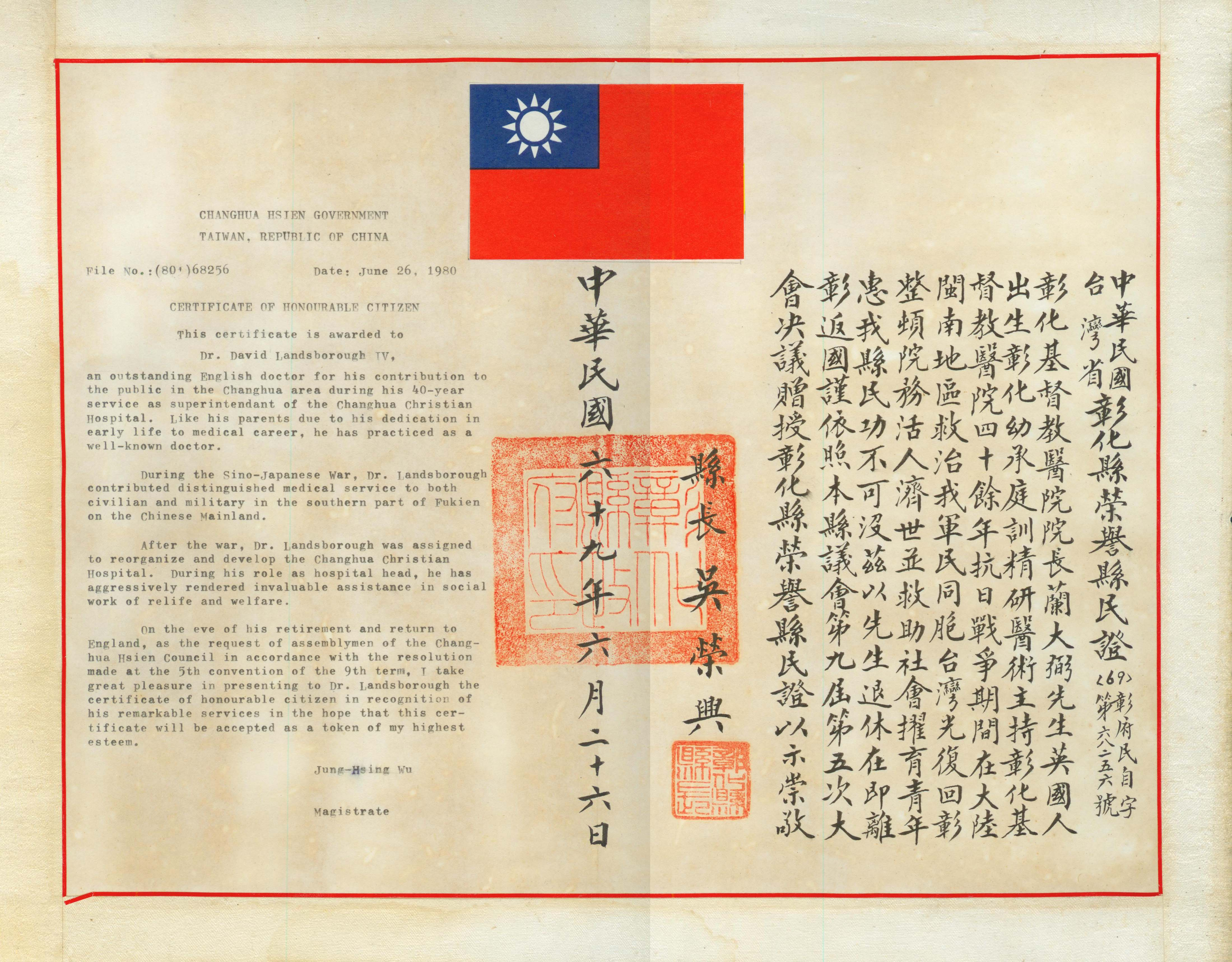 certificate of honorary citizenship for David Landsborough Ⅳ